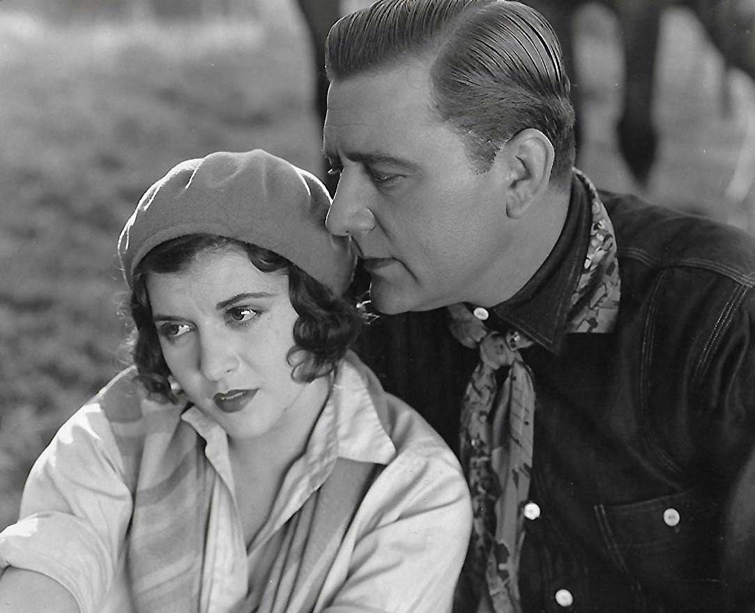 Dorothy Gulliver and Kenneth Harlan in Under Montana Skies (1930) - publicity still (cropped)